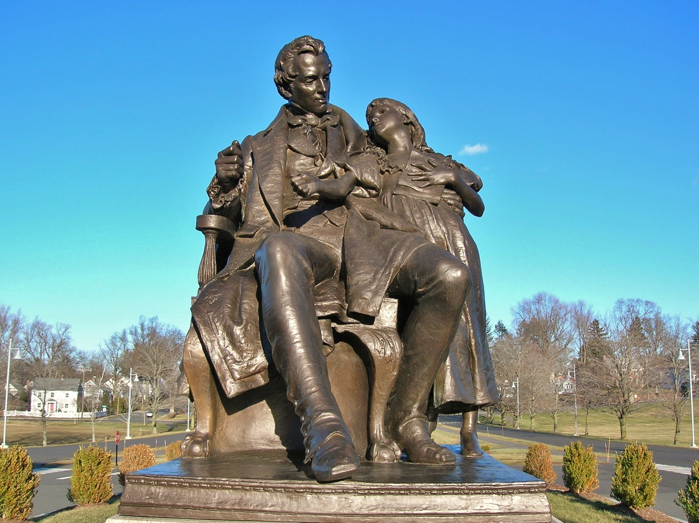 Gallaudet Memorial sculpted by Daniel Chester French (1925), located at the American School for the Deaf, West Hartford, Connecticut. This monument depicts Thomas Hopkins Gallaudet and the young Alice Cogswell signing the letter A. The base of the monument contains the inscription FRIEND TEACHER BENEFACTOR. This is a replica of the memorial located on the campus of Gallaudet University in Washington, D.C. that was originally sculpted by Daniel Chester French in the late 1880's.